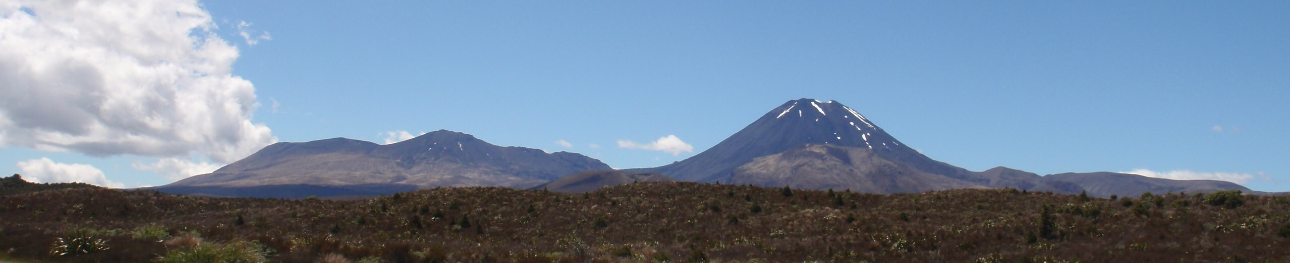 Mt Ngauruhoe (right) and Mt Tongariro (left)